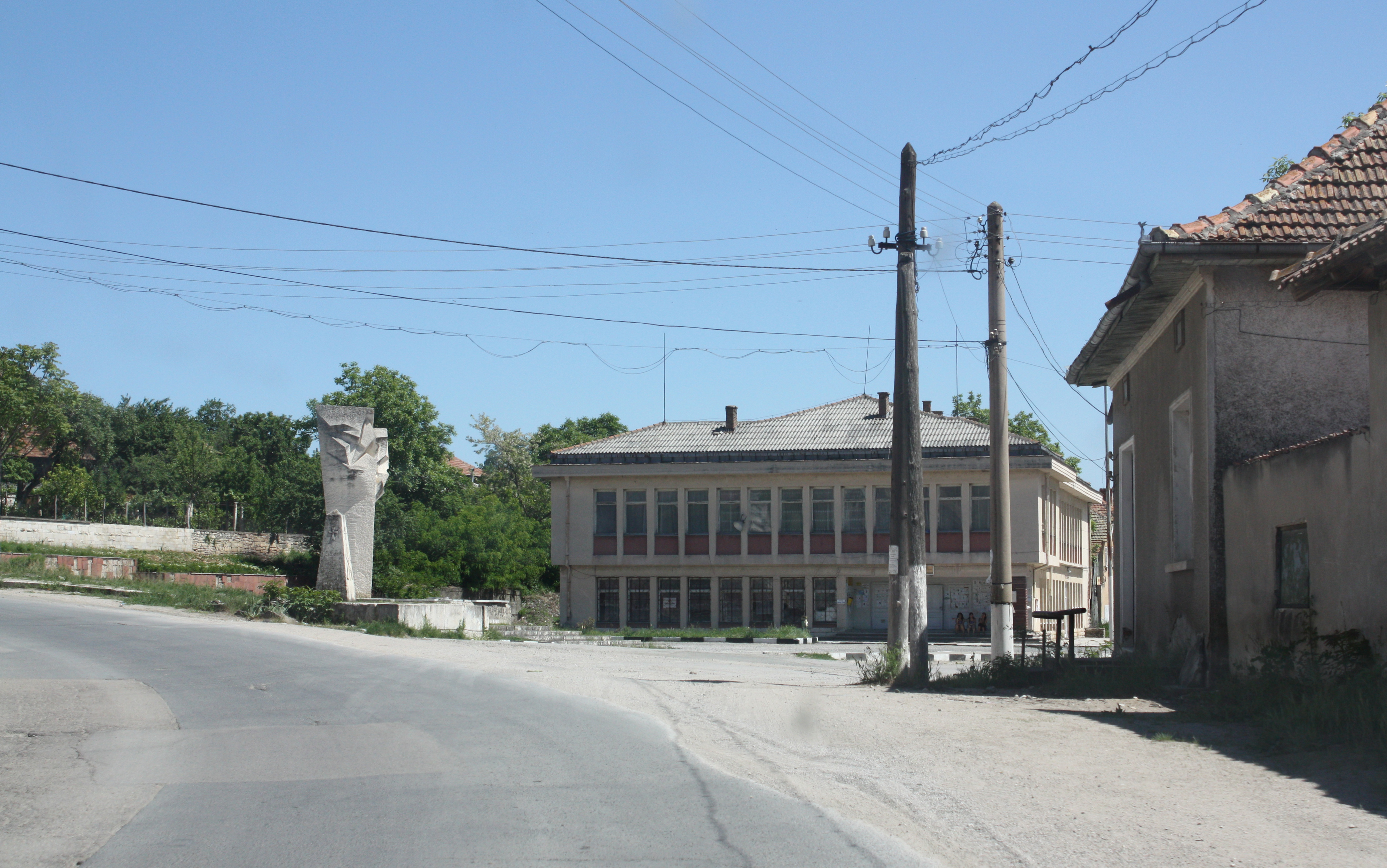 Center and Town Hall of Gorna Kgremena, Bulgaria